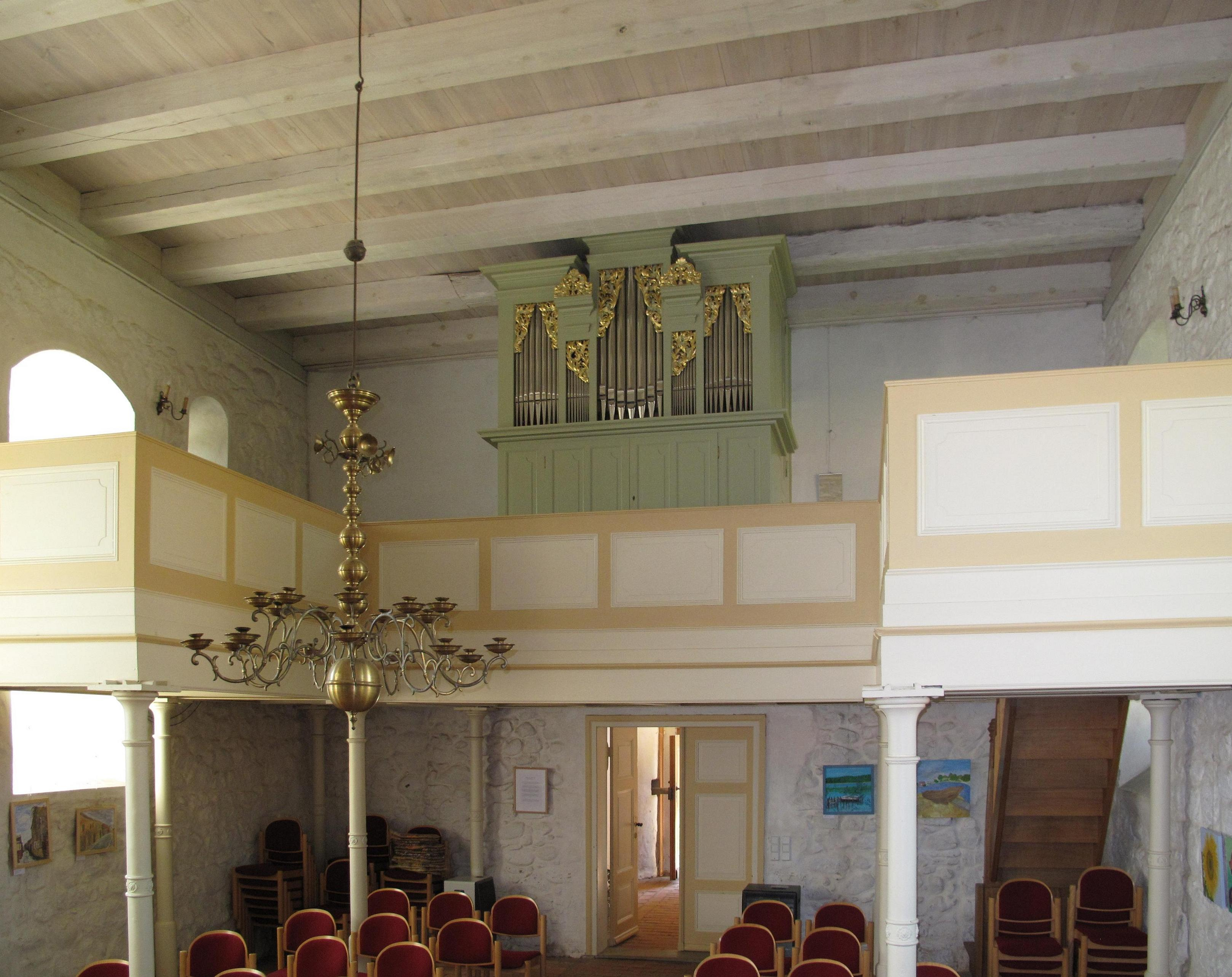 Organ loft of the Village church Wildenbruch. Listed Fieldstone church, built in the 13th century. The timber framed addition on the center of the west tower was built in 1737 and after modifications in the meantime1992 reconstructed according to the plans from 1737. Contrary to many different depictions it is no Fortified church (german: Wehrkirche). Wildenbruch is a part of Michendorf in the district Potsdam-Mittelmark, state Brandenburg, Germany.